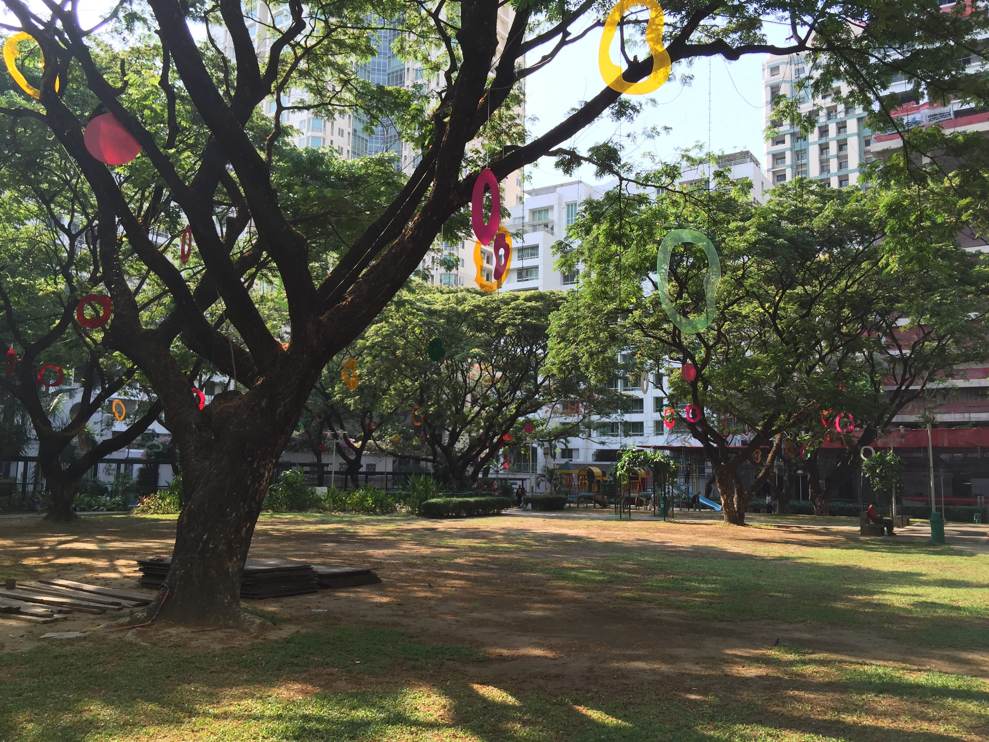 Jaime C. Velasquez Park, more popularly known as Salcedo Park, in Bel-Air Village, Makati, Metro Manila, Philippines